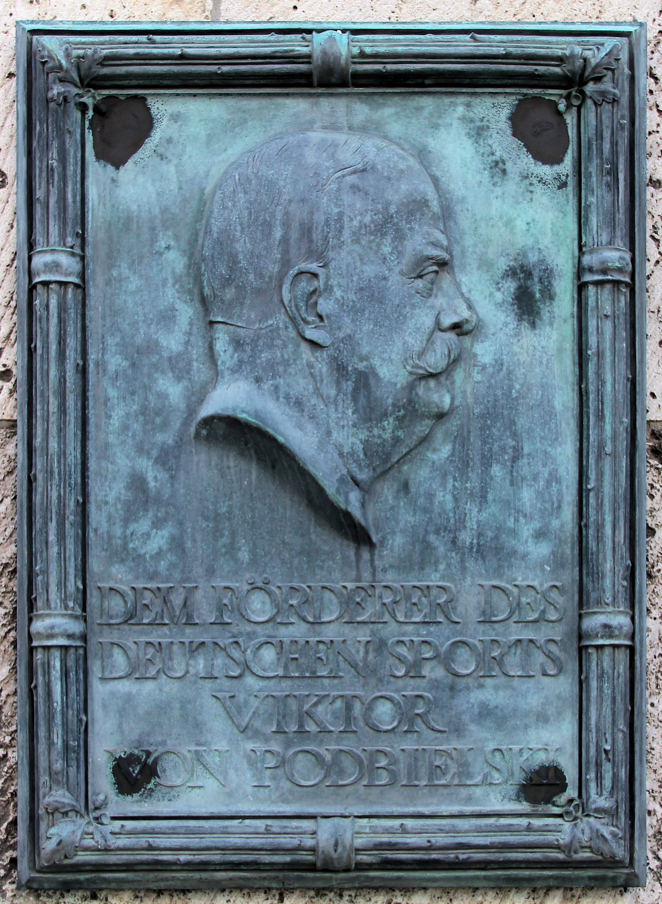 Memorial plaque, Victor von Podbielski, Olympischer Platz 4, Berlin-Westend, Germany Koordinate:52°30′54″N 13°14′34″E / 52.515°N 13.24278°E